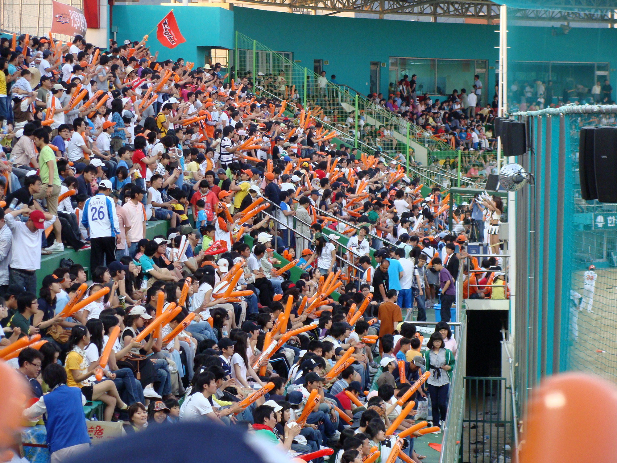 Fans of Hanwha Eagles support at Cheongju Ball Park.